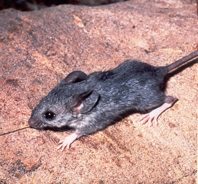 The Cactus Mouse (Peromyscus eremicus) is a species of rodent in the Cricetidae family. It is found in Mexico and the United States.